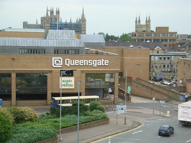 Queensgate Shopping Centre With the entrance to the bus station in front. The top of Peterborough Cathedral can be seen beyond. Looking from the top level of the multi-storey car park across Bourges Boulevard.